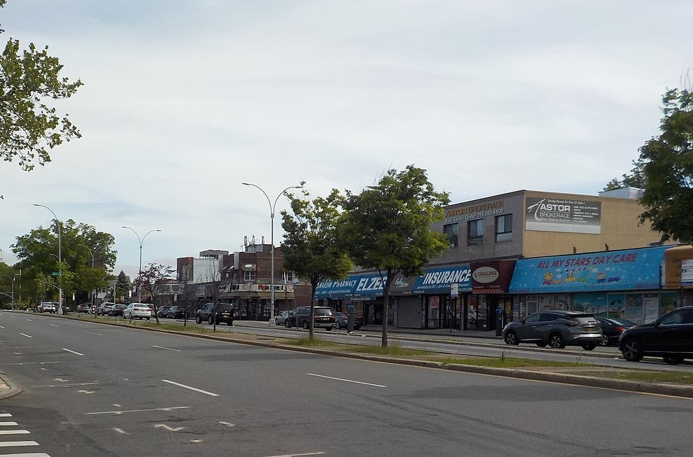 Main Street, Kew Garden Hills, May 2020